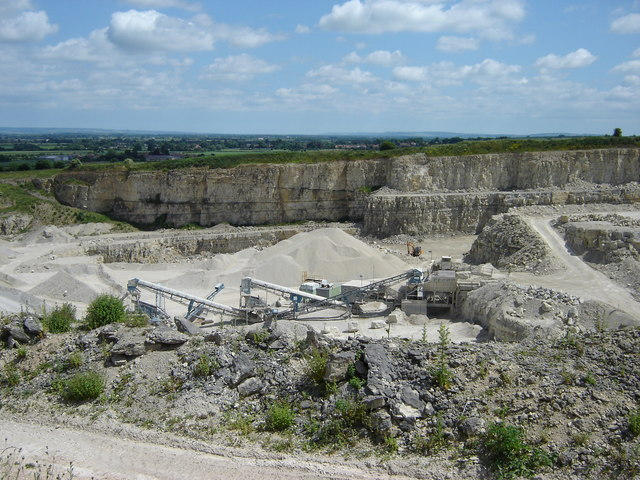 Wath Quarry Large working quarry